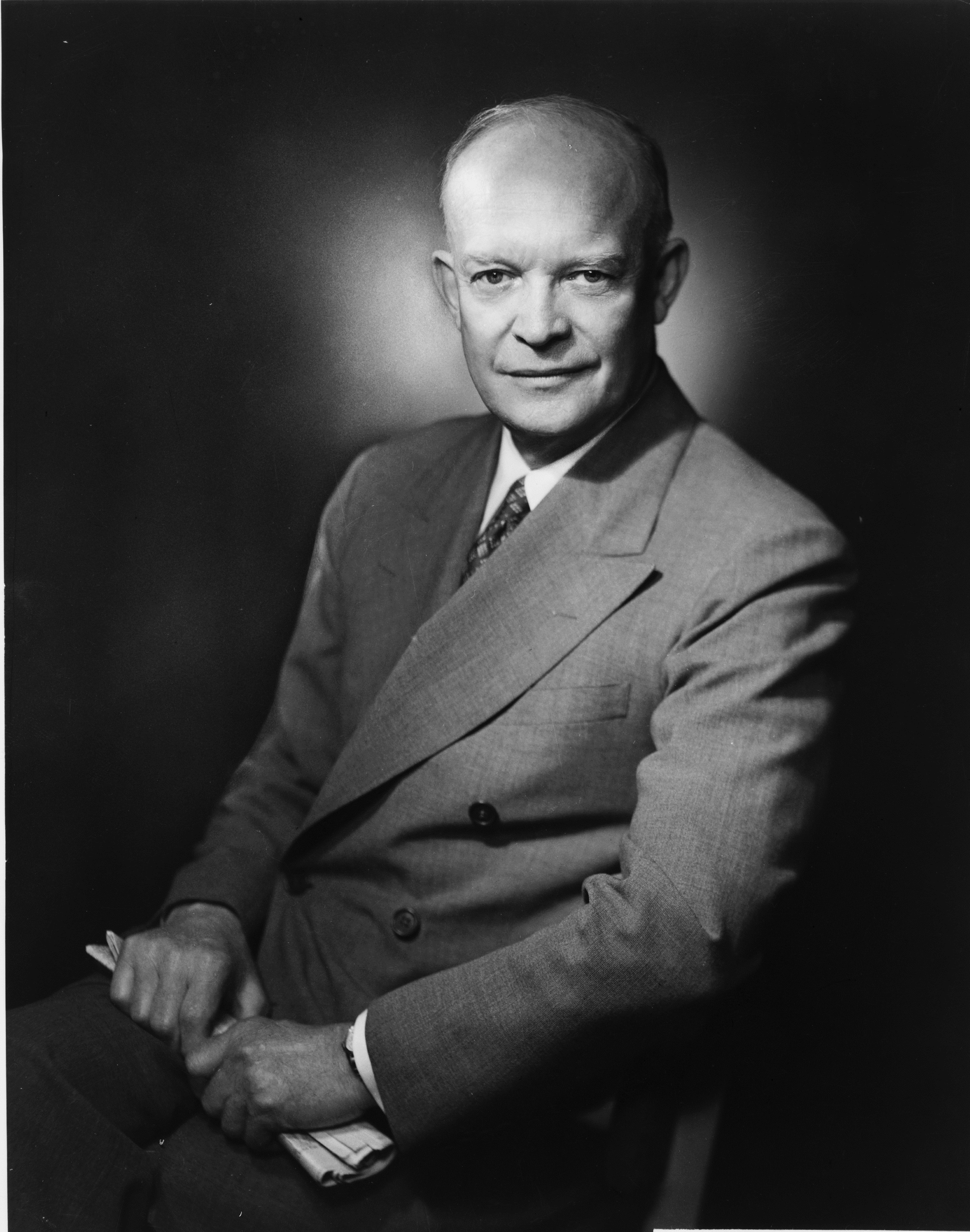 Dwight D. Eisenhower, three-quarter length portrait, seated, facing front.